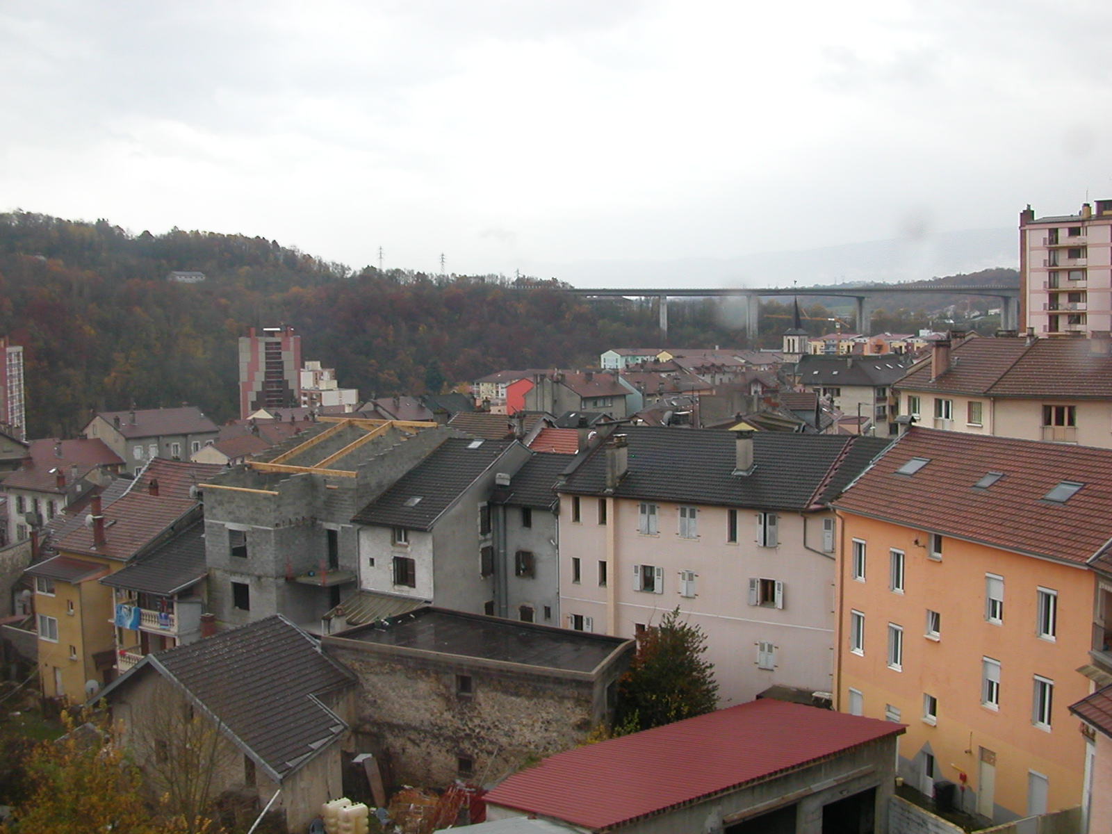 A view of Bellegarde-sur-Valserine